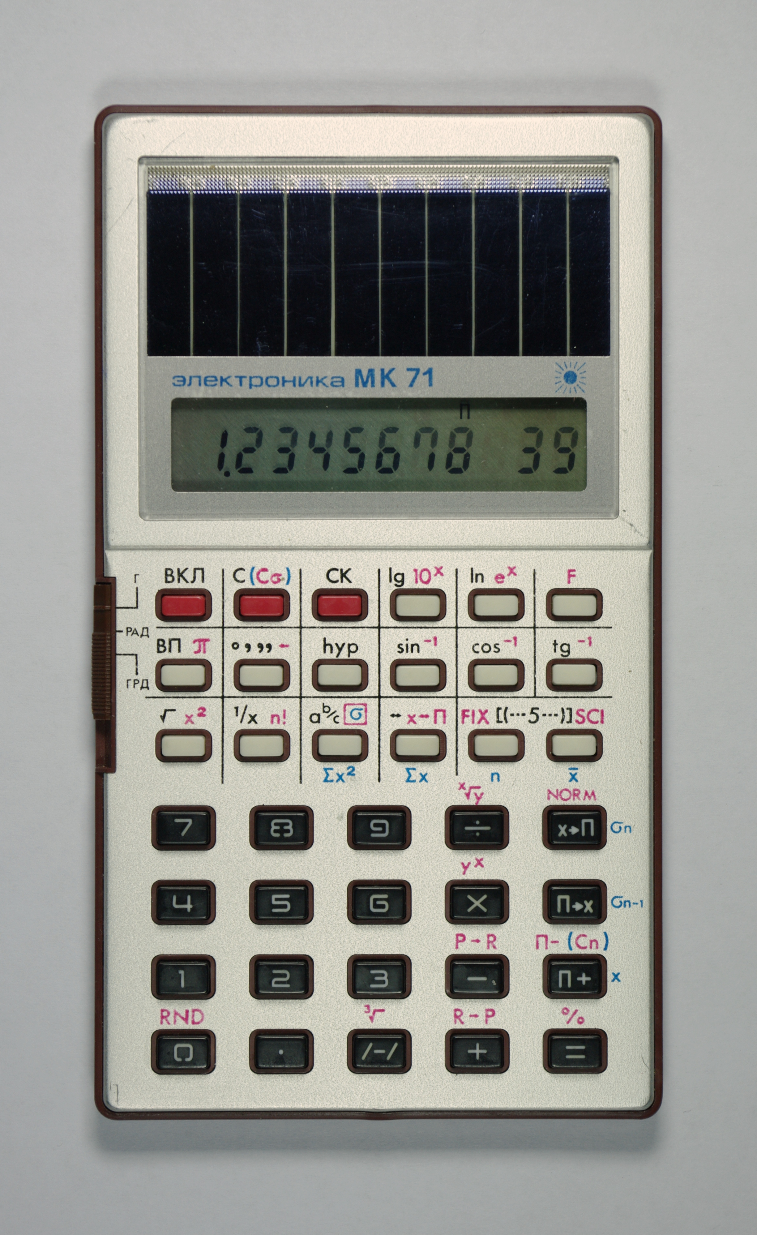 Electronika MK-71 (made in USSR)